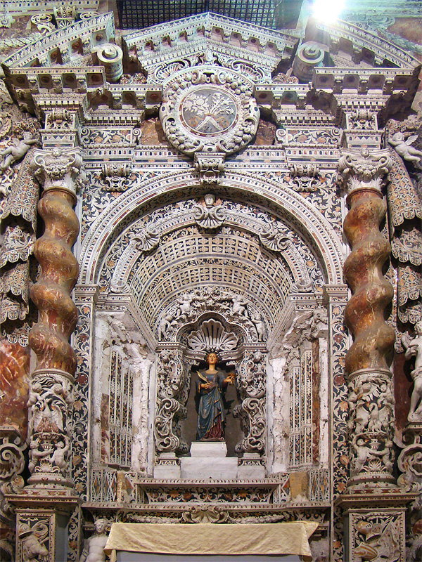 Church of Santa Maria di Valverde, Palermo, Sicily, Italy. Lateral chapel.